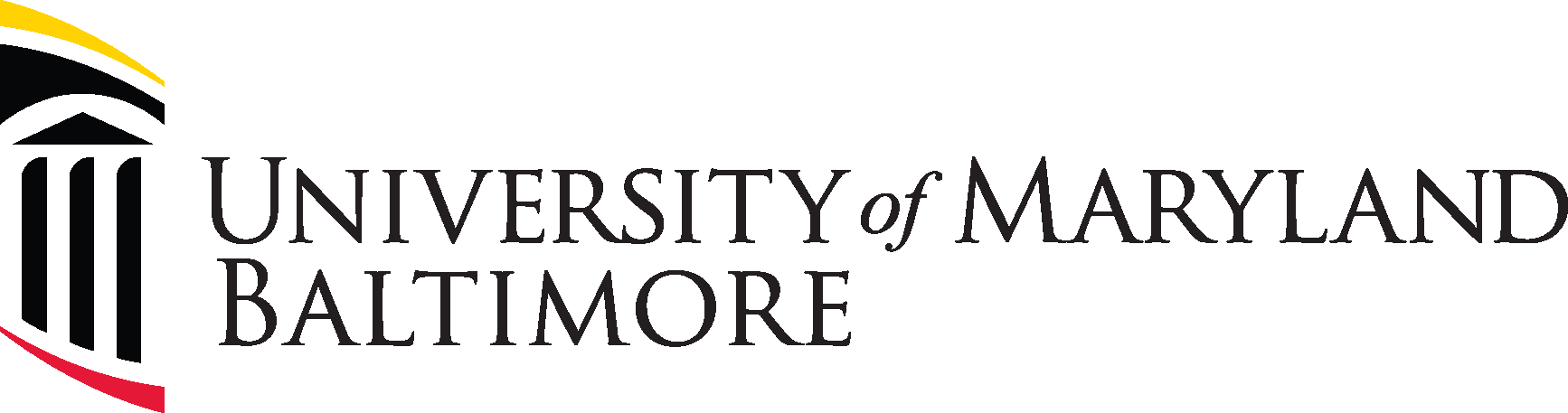 University of Maryland, Baltimore logo